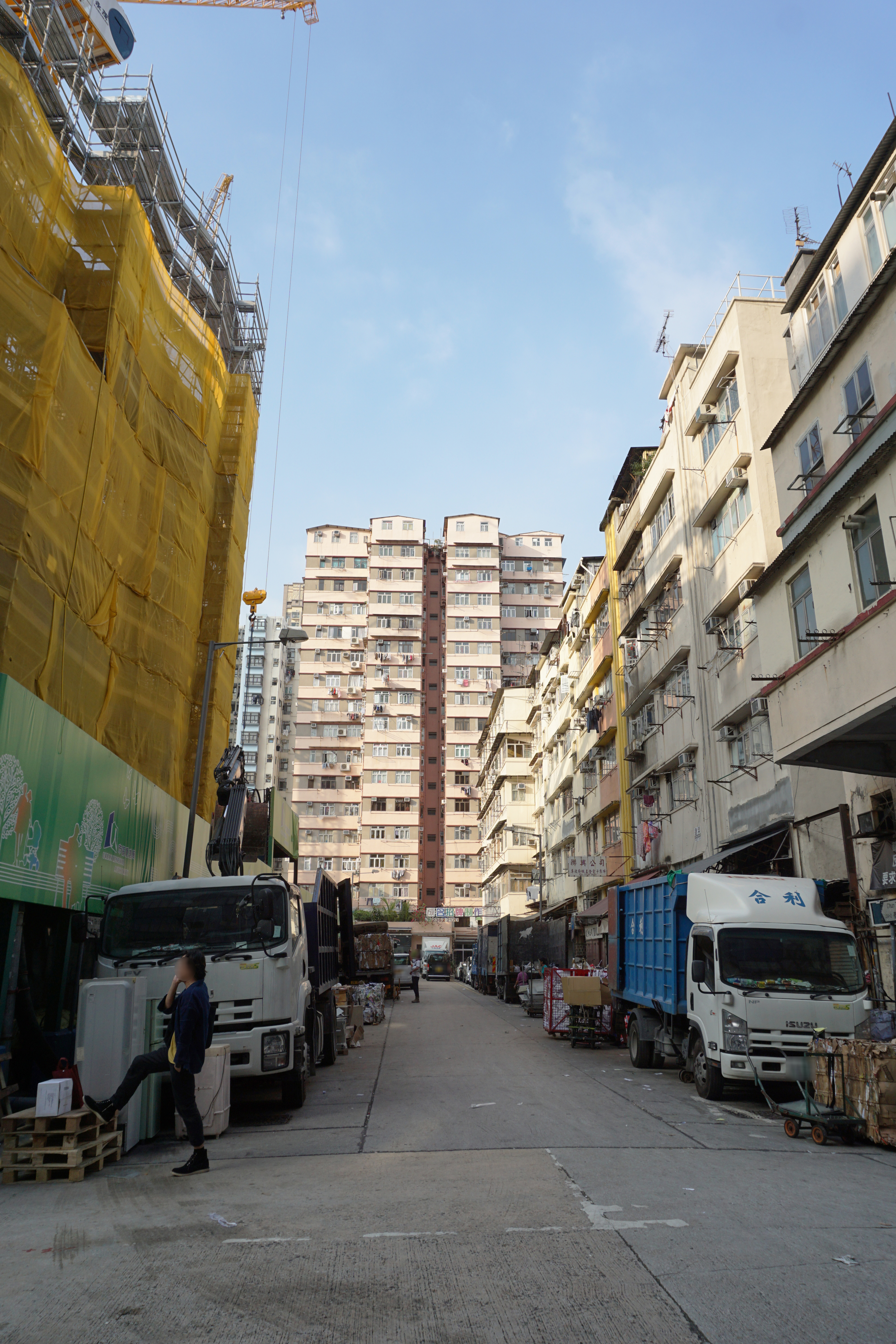 Chun Tin Street in To Kwa Wan, Hong Kong.